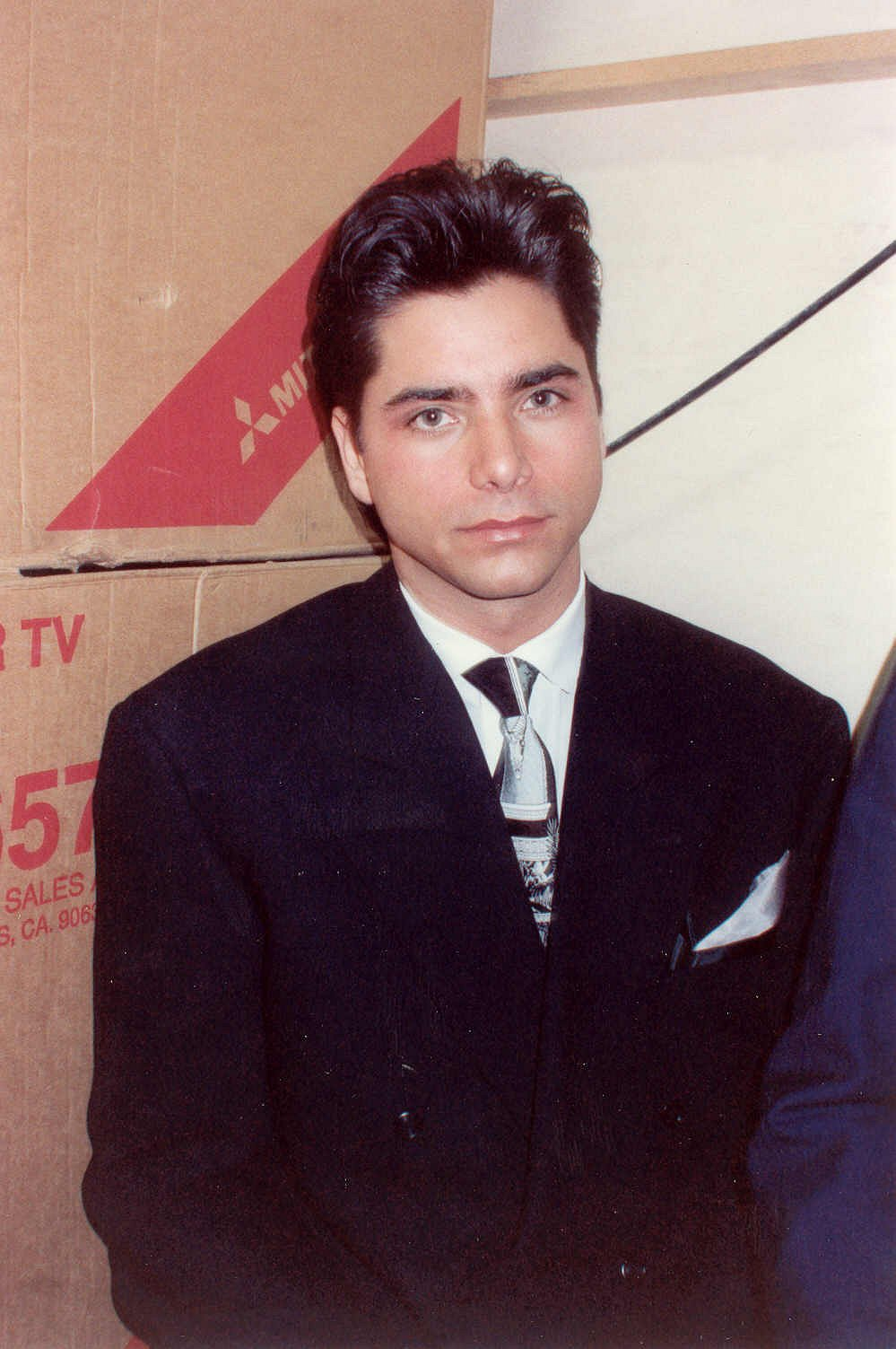 John Stamos backstage at the 1990 Grammy Awards.